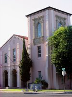 i have created this work myself